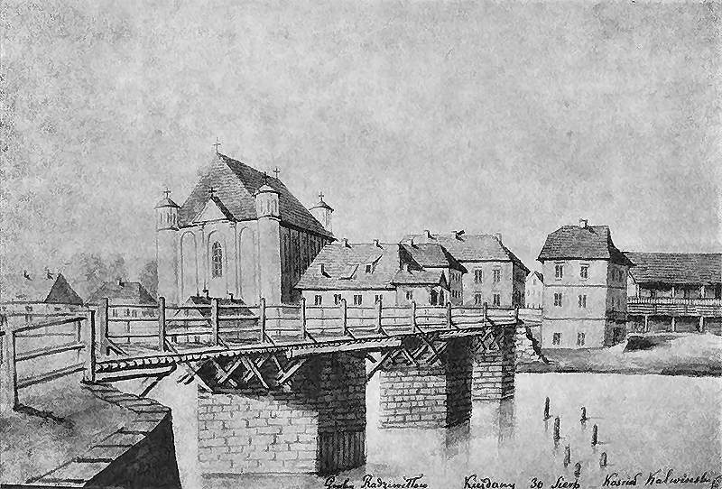 Kėdainiai, Lithuania 19th century